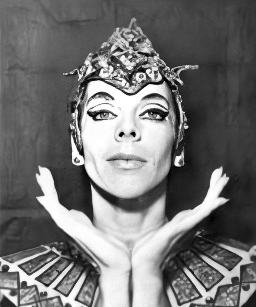 Norma Fontenla(1930-1971), ballet Teatro Colón Buenos Aires